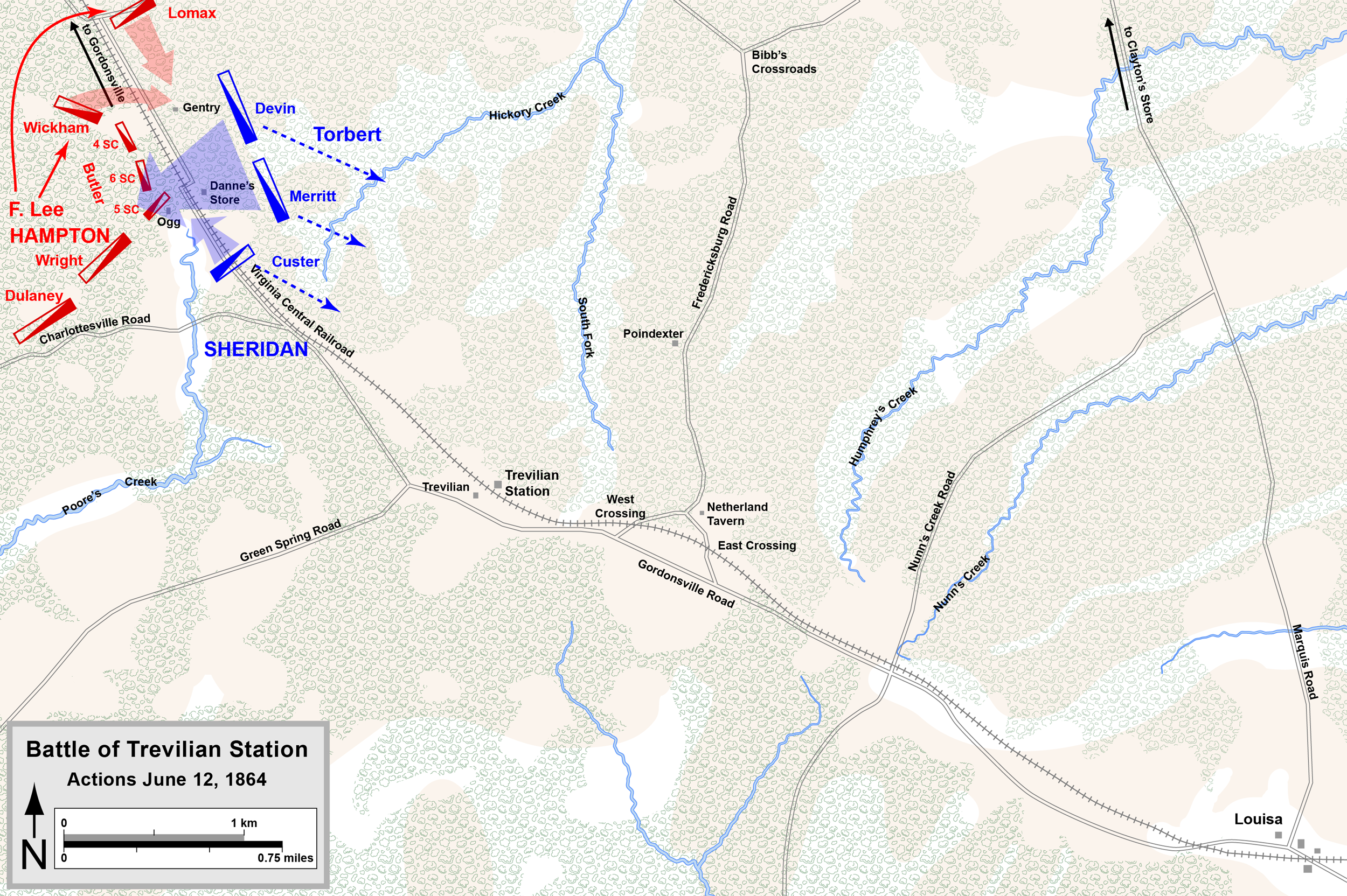 Map of the second day of the Battle of Trevilian Station of the American Civil War, drawn in Adobe Illustrator CS5 by Hal Jespersen. Graphic source file is available at